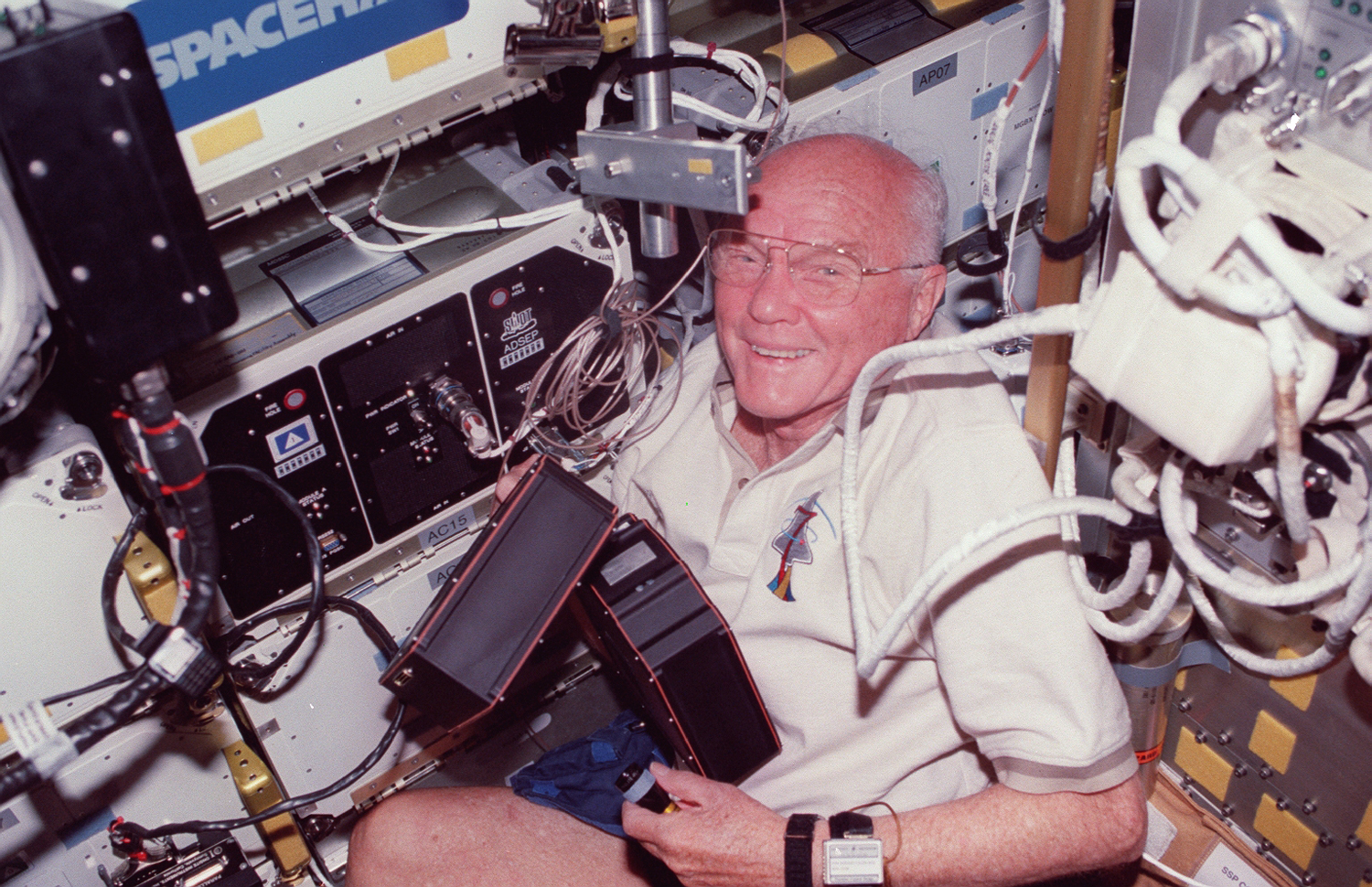 Senator-astronaut John Glenn on the shuttle Discovery.